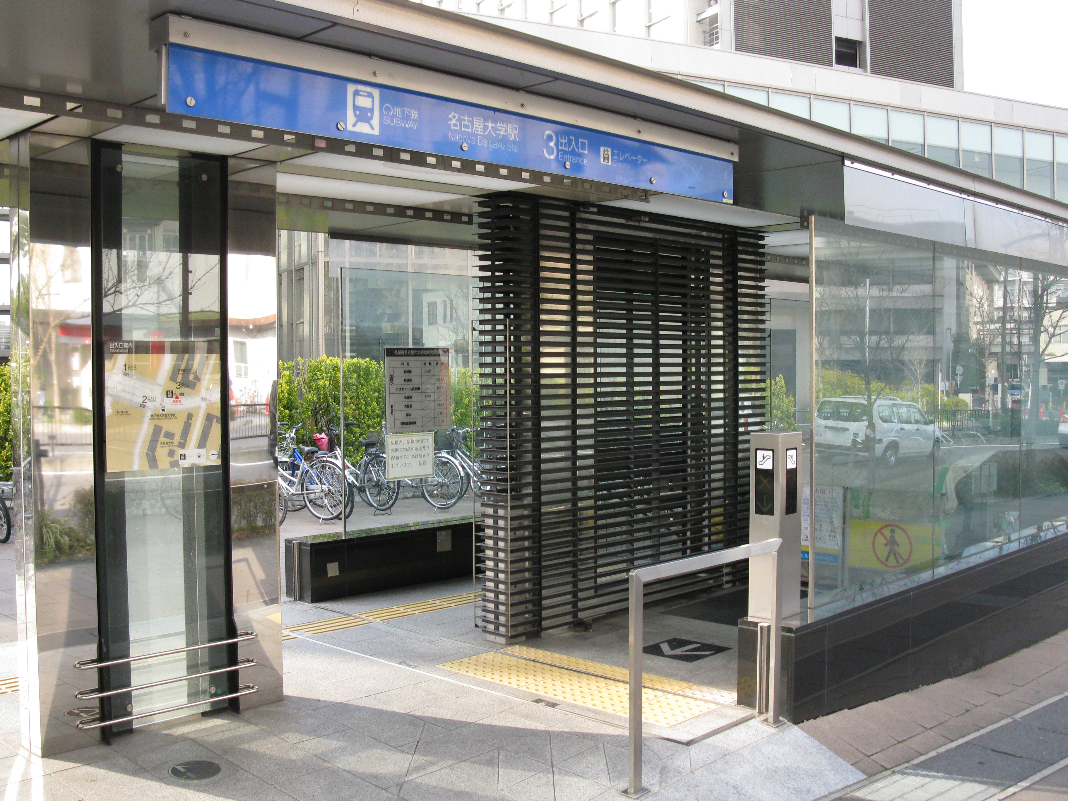 Nagoya Daigaku Station no.3 entrance (Nagoya Municipal Subway Meijō Line)